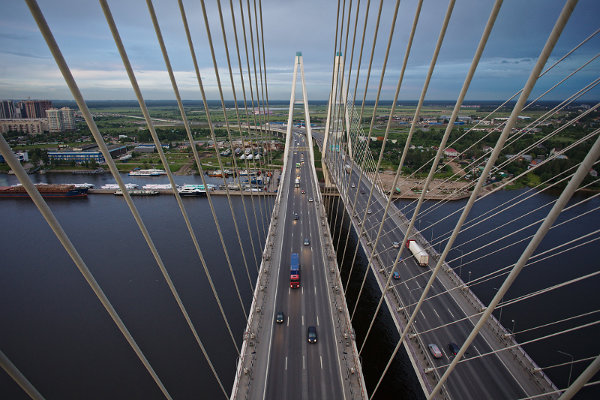 Bolshoy Obukhovsky Bridge. Saint Petersburg, Russia. Photo by Anton Vaganov.